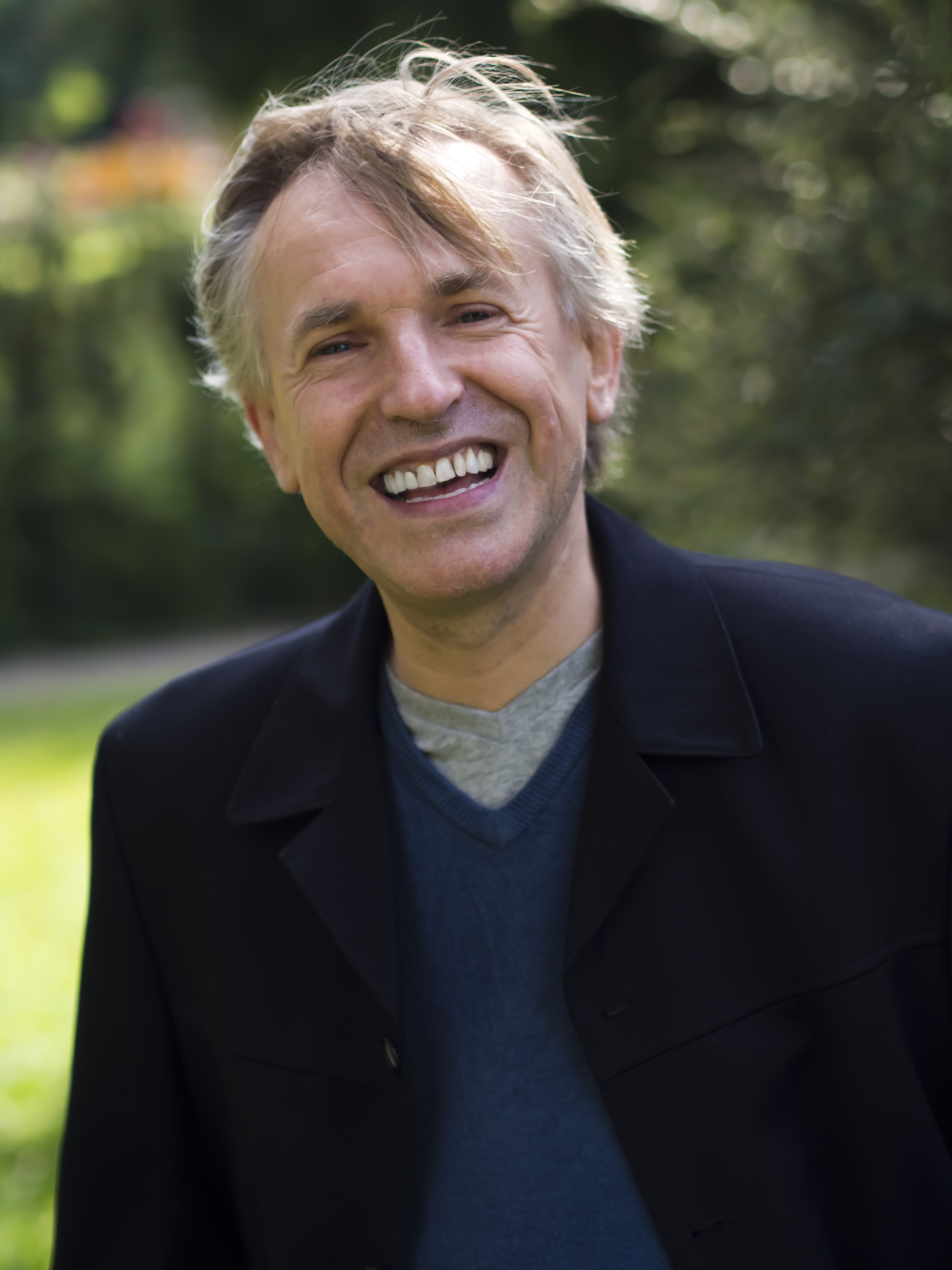 British transhumanist David Pearce